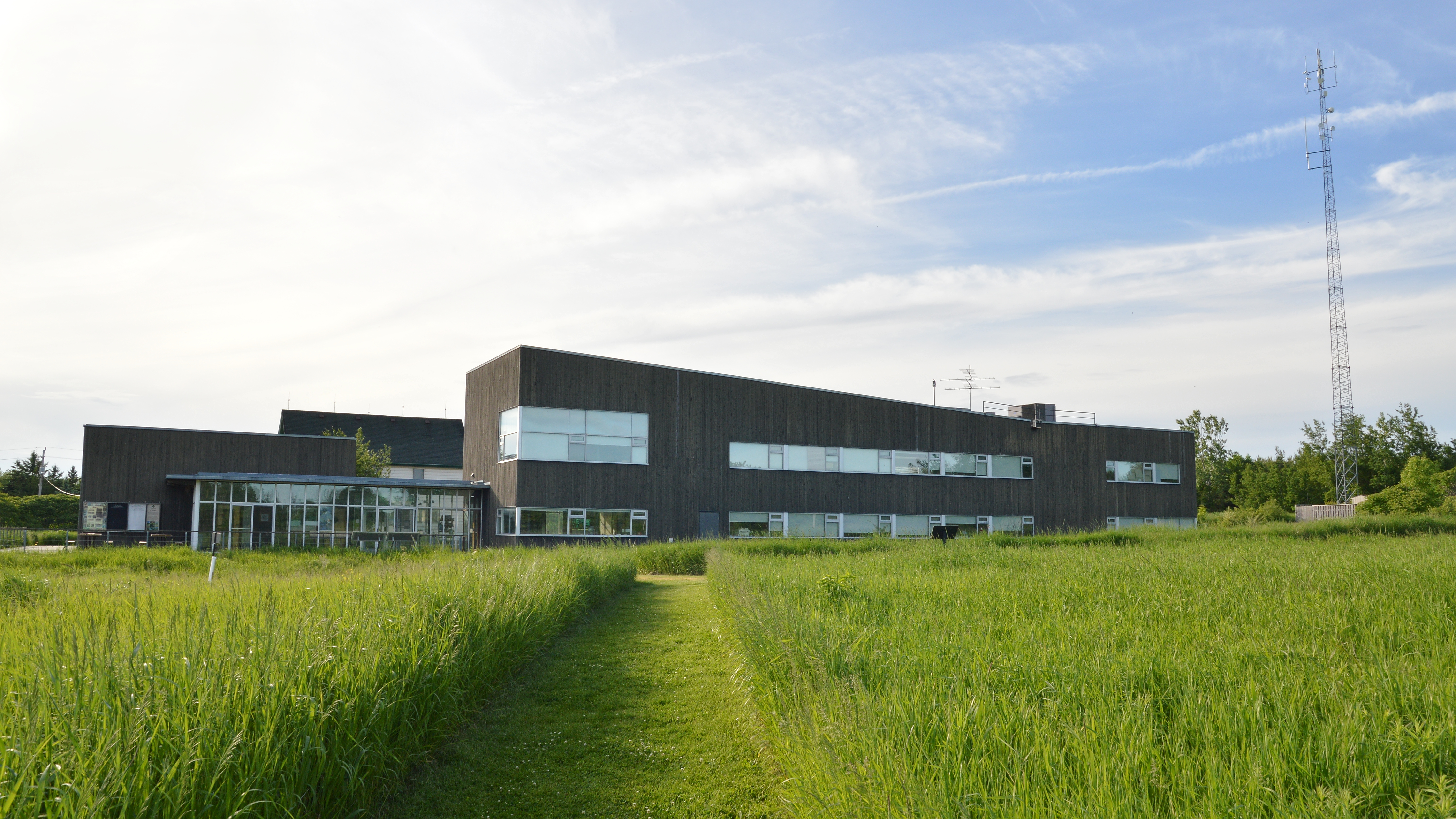 Birds Canada building in Norfolk County, Ontario, Canada.